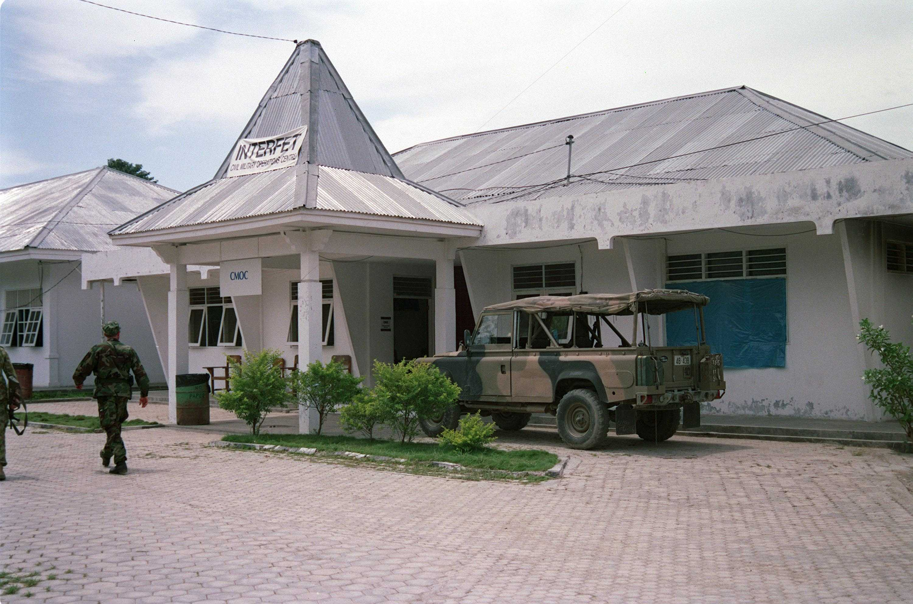 USS Blue Ridge, 12 February 2000, Dili, East Timor--Photograph of Civil Military Operations Center at International Forces East Timor (INTERFET), headquarters. (Photo by PH3 Dan Mennuto).